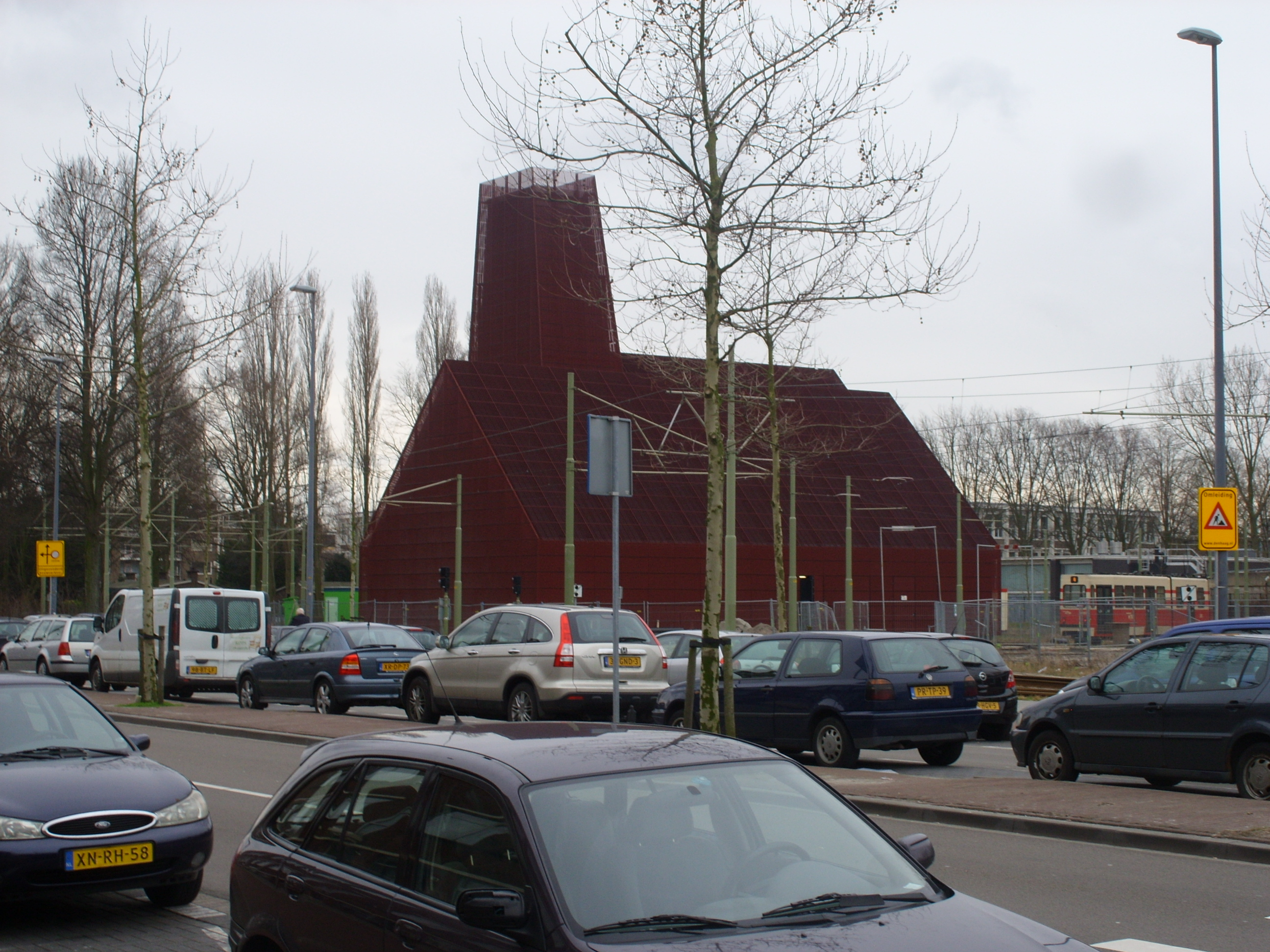 Boiler house Geothermal site Leyweg Den Haag, The Netherlands